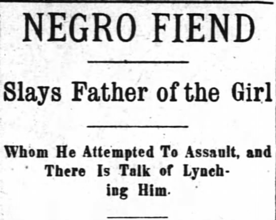 The Cincinnati Enquirer. 6 Jul 1908.